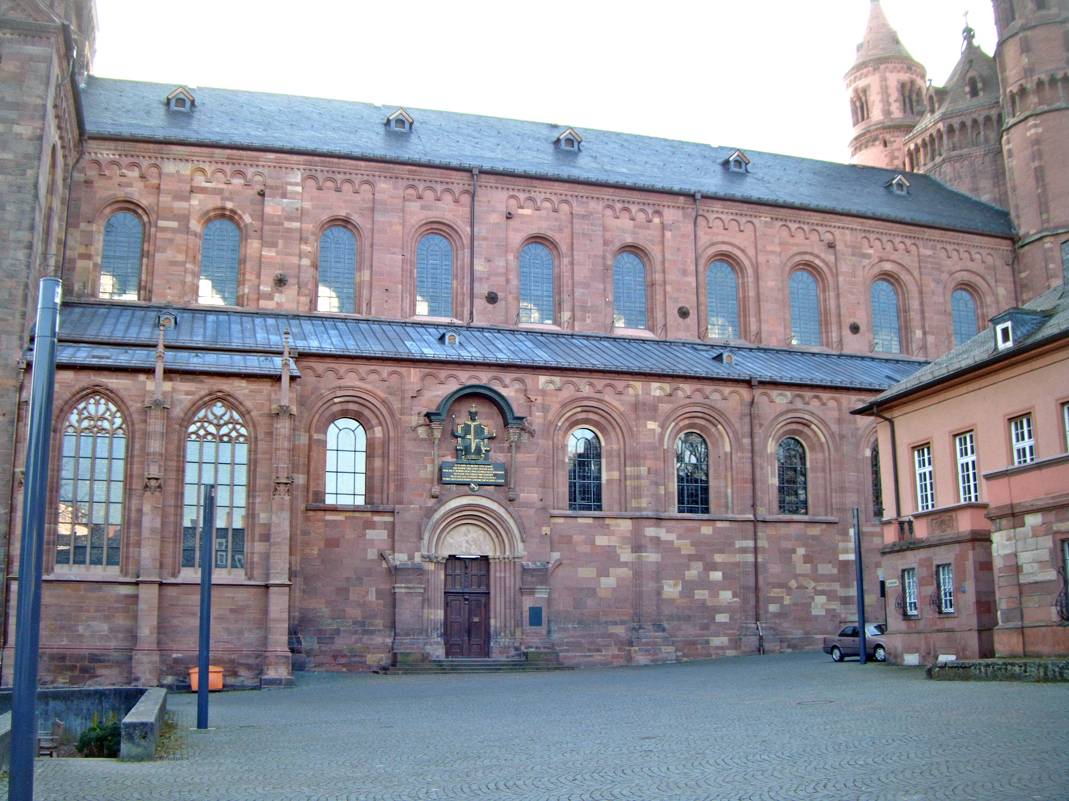 Wormser Dom Langhaus von Norden